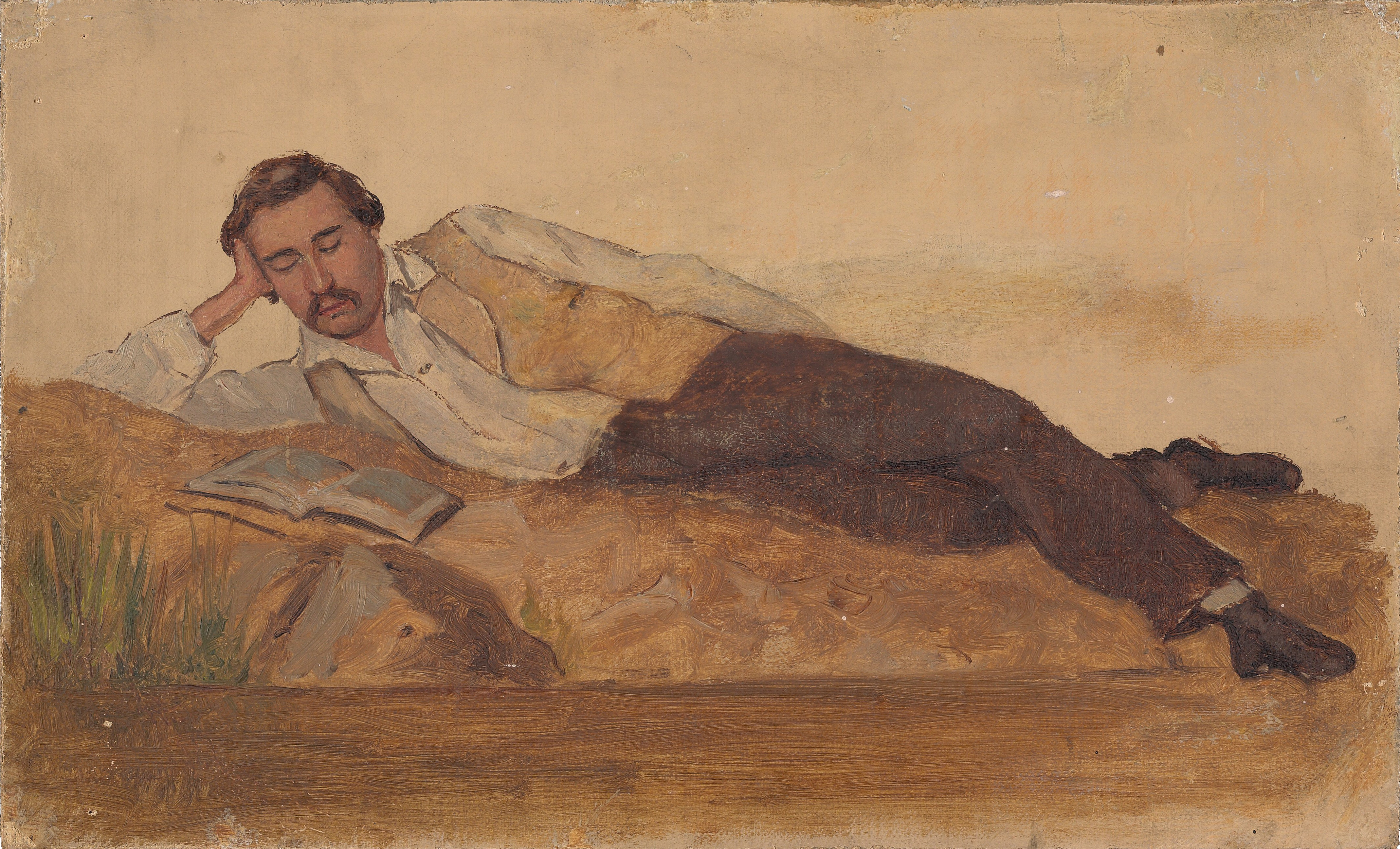 Verso inscription : "Portrait in oils of R. L. Stevenson by Fanny V de G. Osbourne, Fontainebleau, 1876"